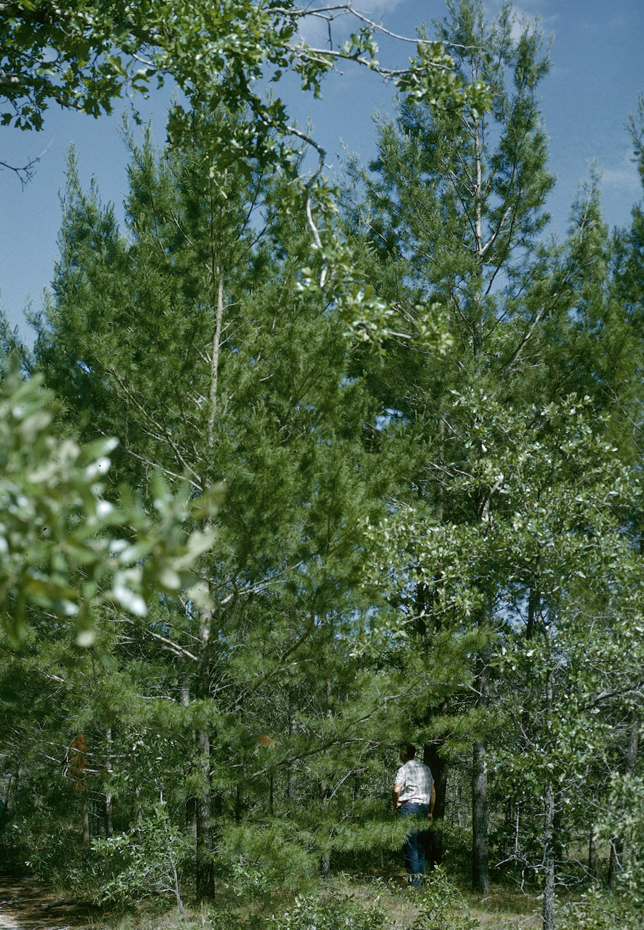 Sand Pines Pinus clausa in Florida scrub habitat. Near Chipola in Calhoun County, Florida.